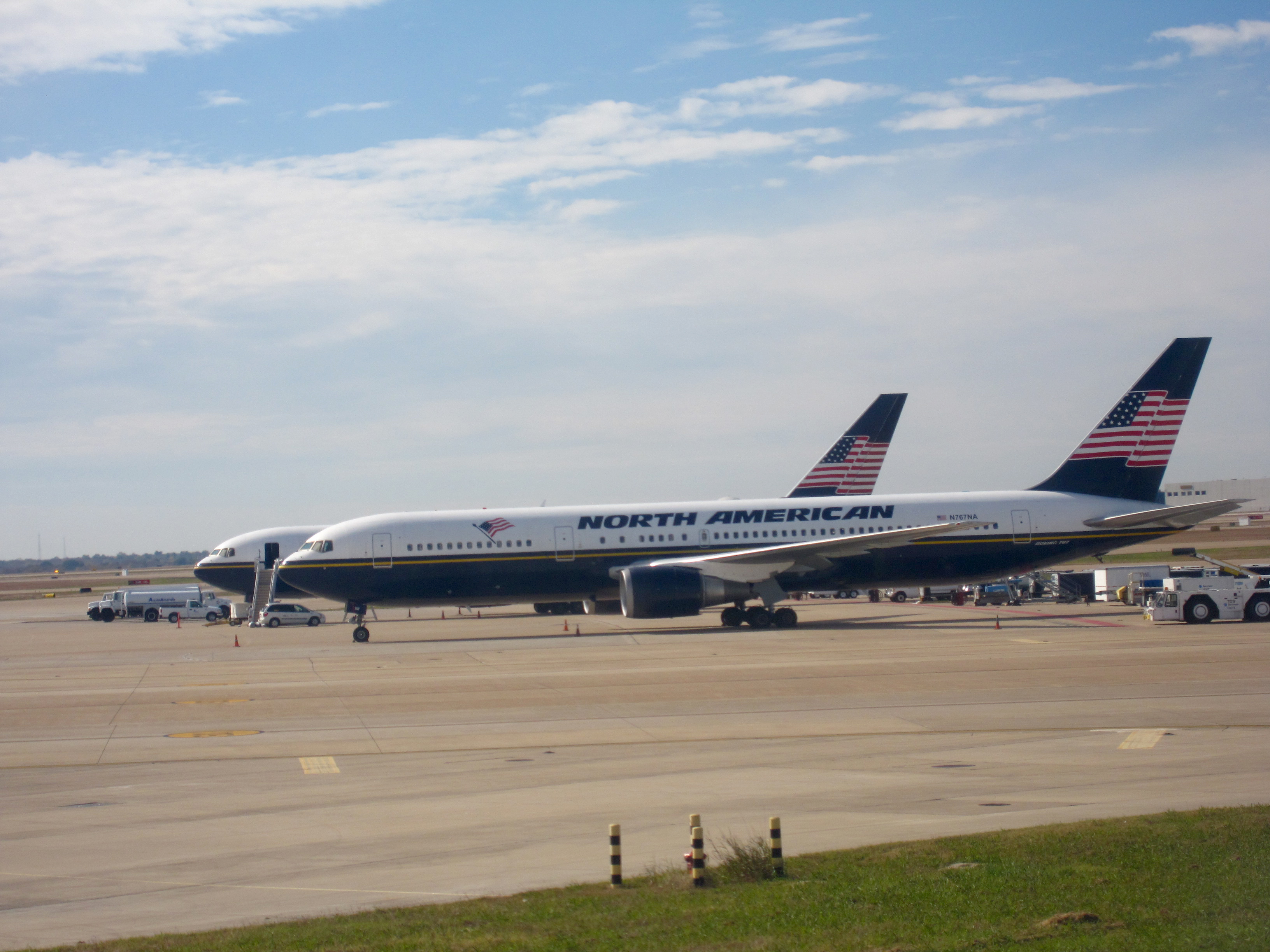 Two North American Airlines Boeing 767-300 at Dallas/Fort Worth International Airport in November 2009.